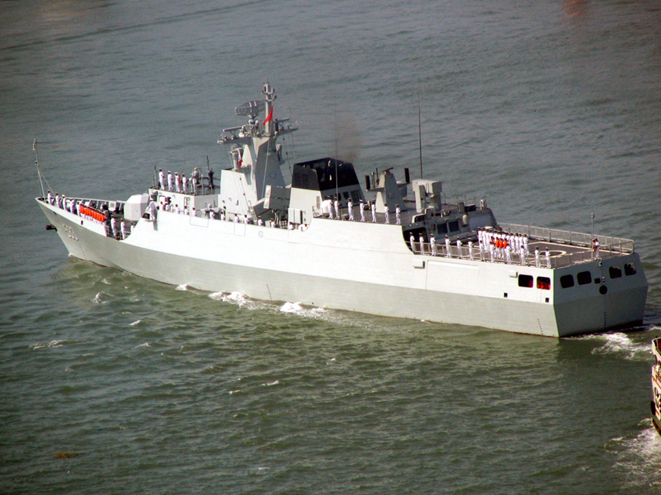 Type 056 corvette 583 Ganzhou